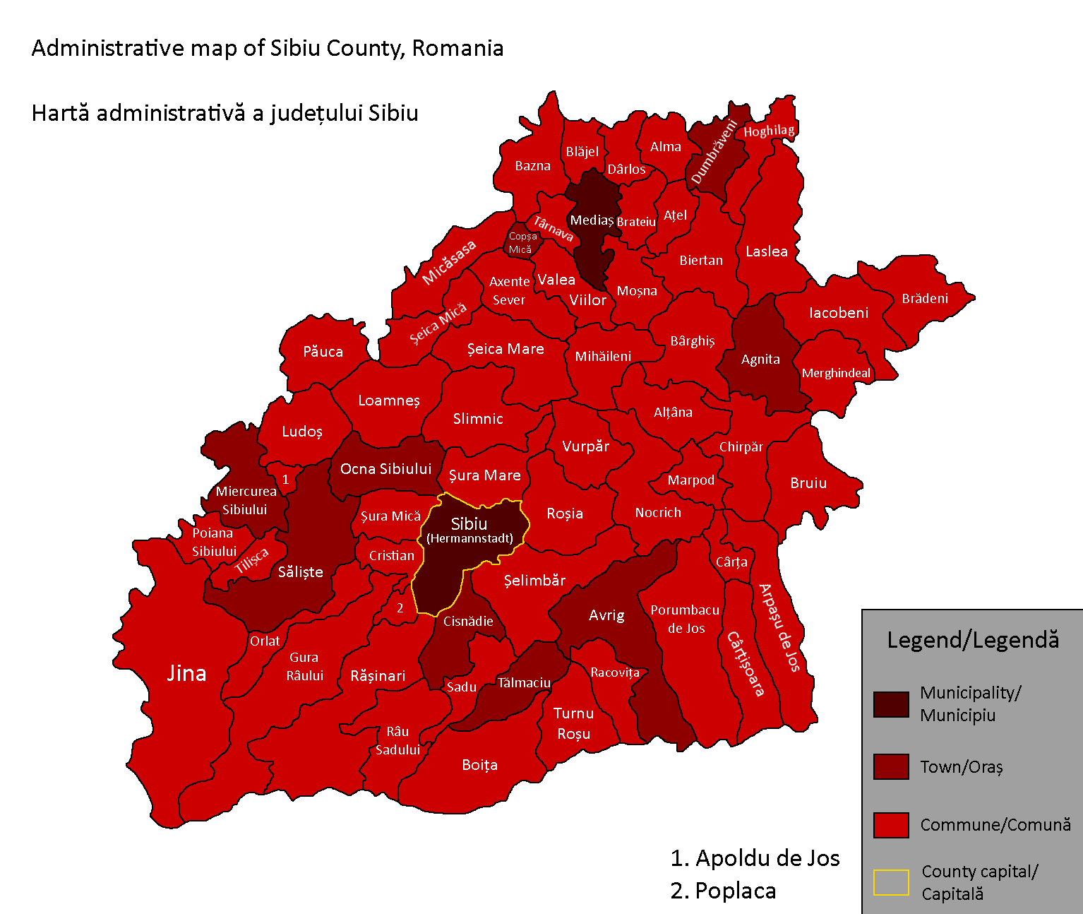 Administrative map of Sibiu County, Romania.